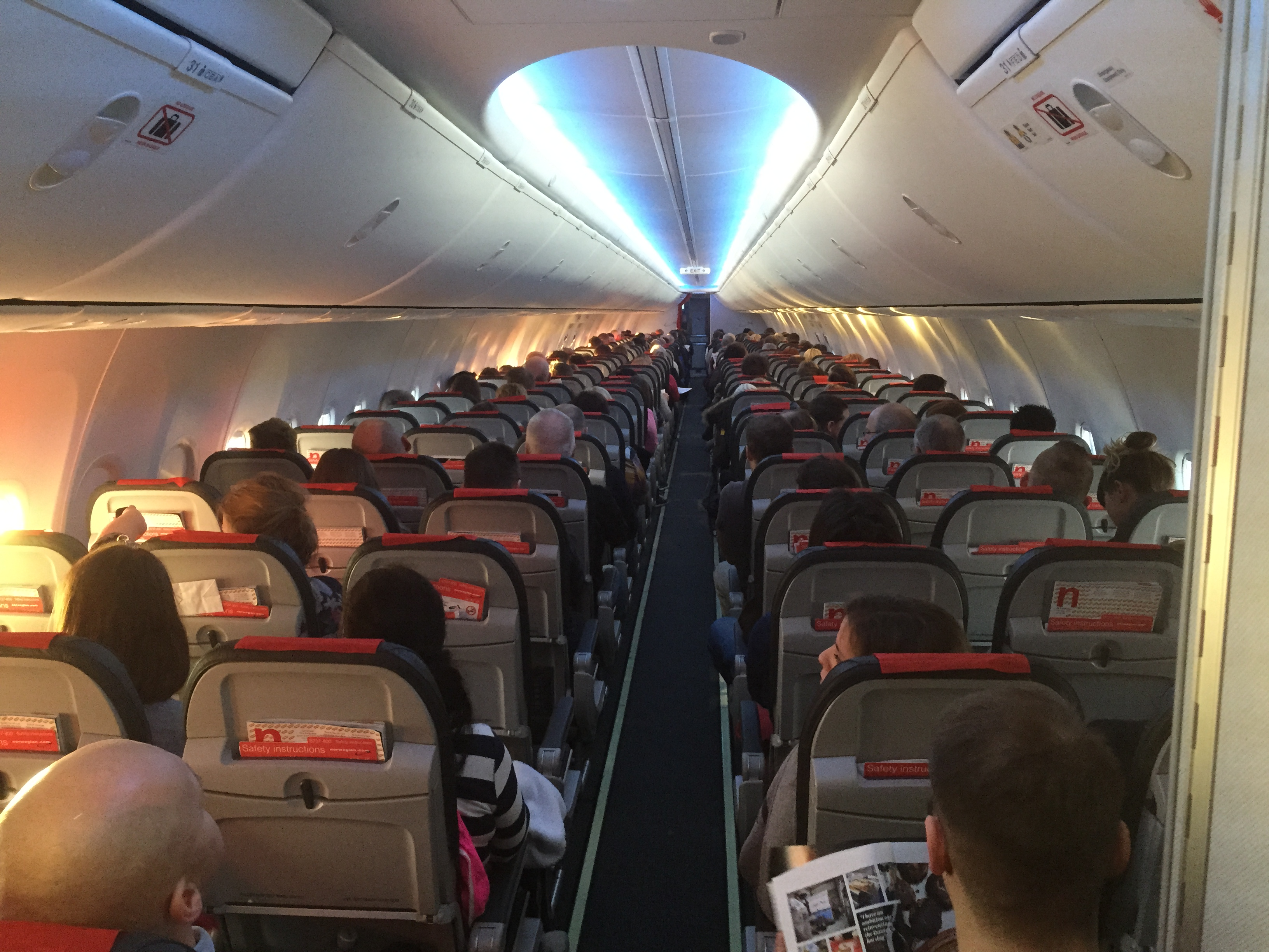 Norwegian Air Shuttle Boeing 737-800 cabin Sky Interior